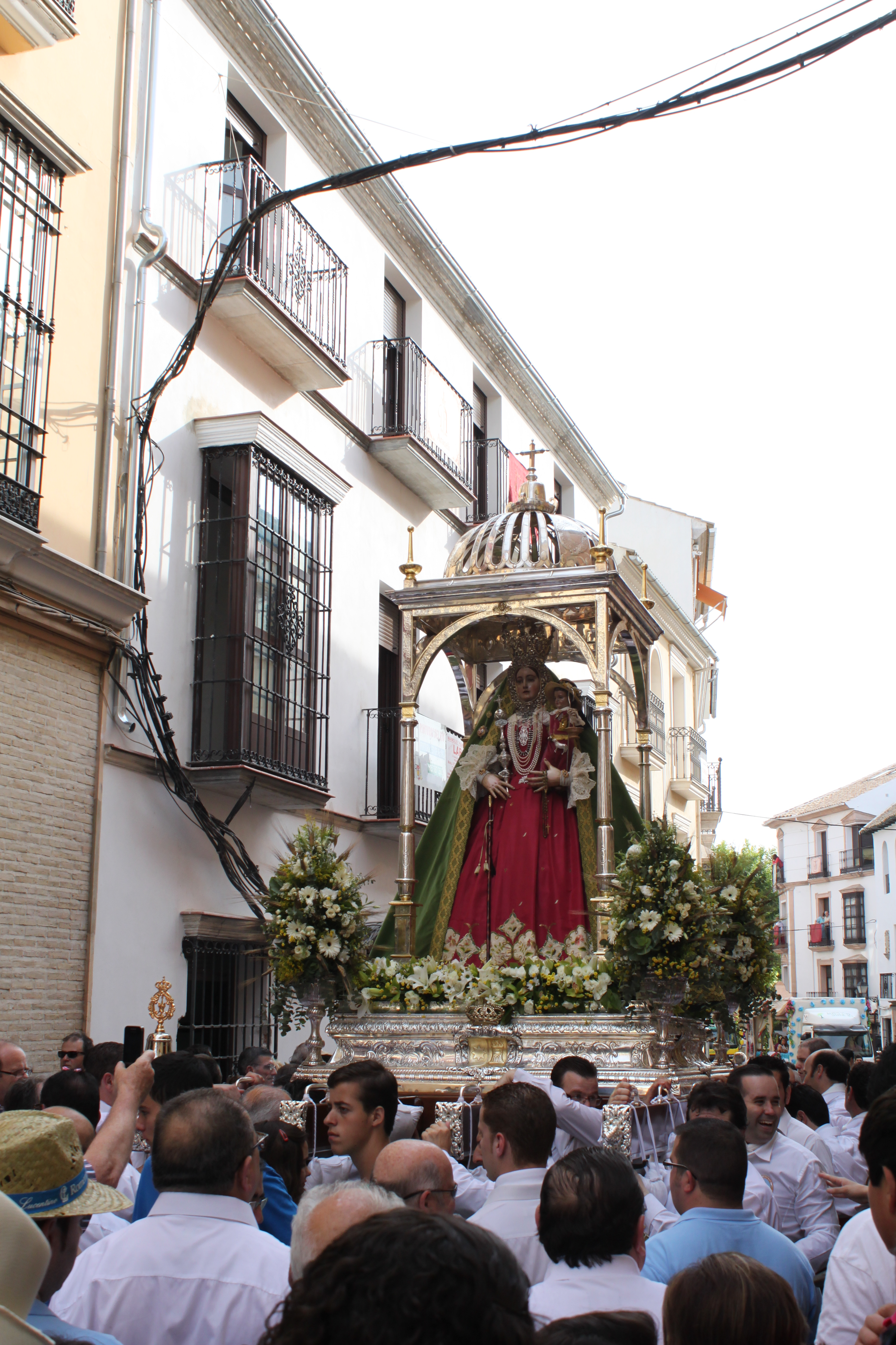 Our Lady of Araceli, of Lucena (Spain), in Antonio Eulate street, at the romería de subida (upward pilgrimage), leaving the town for her sanctuary. 450th anniversary of her coming to Lucena from Rome.